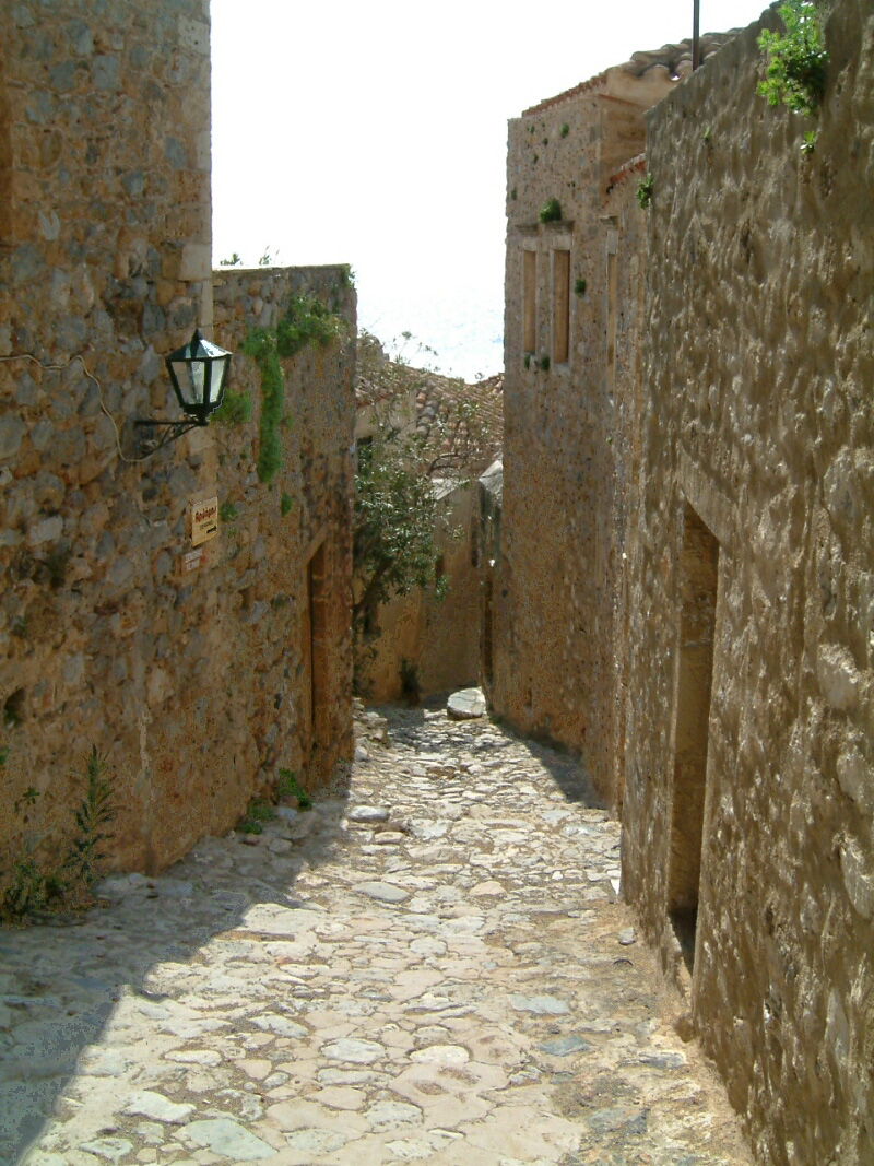 Monemvasia, typical downtown-walk